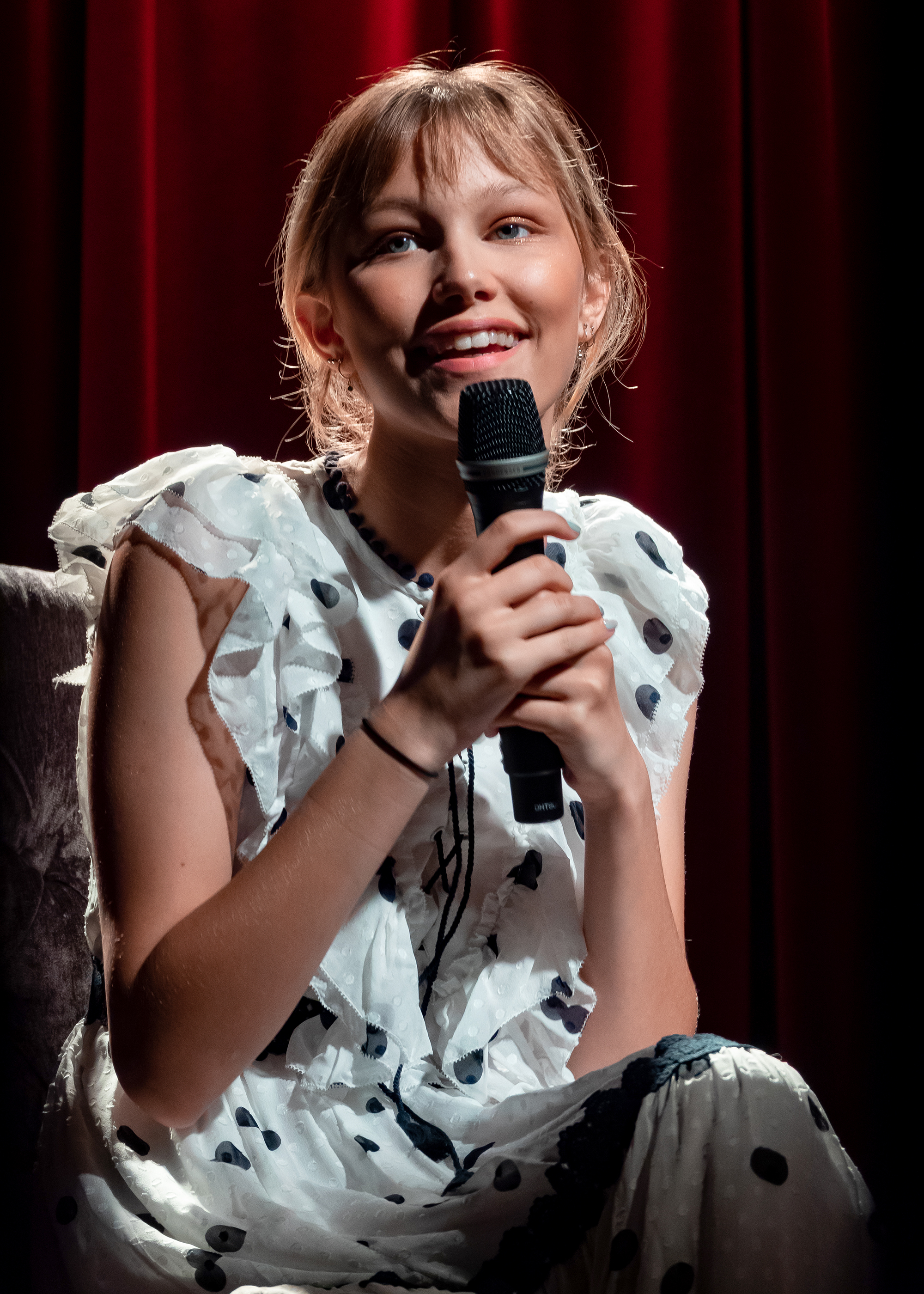 Grace VanderWaal performing live at the Grammy Museum in Los Angeles, California, on Sunday, July 22, 2018.